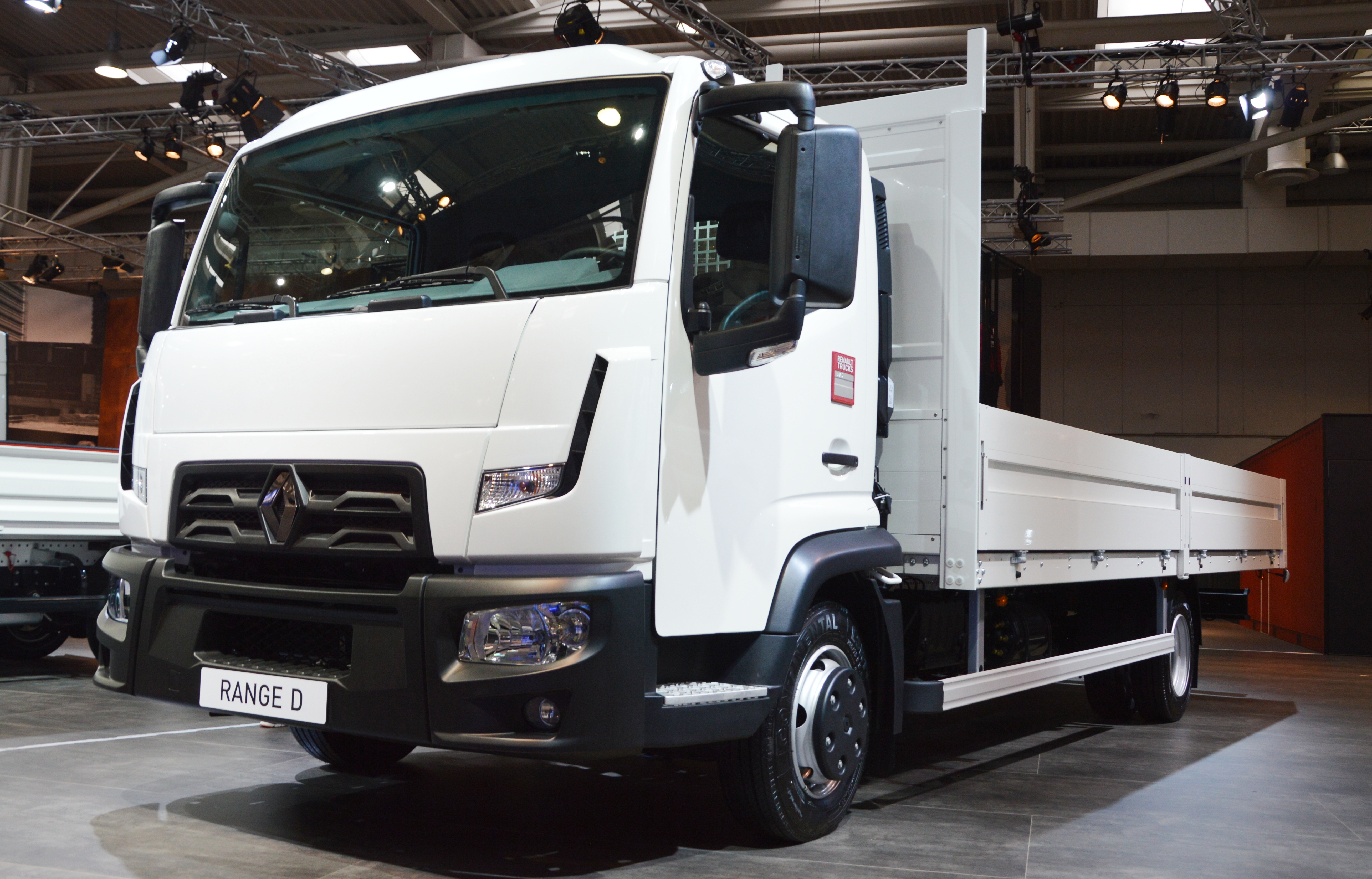 Renault truck D 7.5. Engine: DTI 3 -130 kW / 180 hp at 2600 rpm. Torque 540 Nm. 6-speed manuel gearbox. Exhaust brake. 4 x 2 chassis cab. Wheelbase: 4300 mm. GVW 7,5 to.